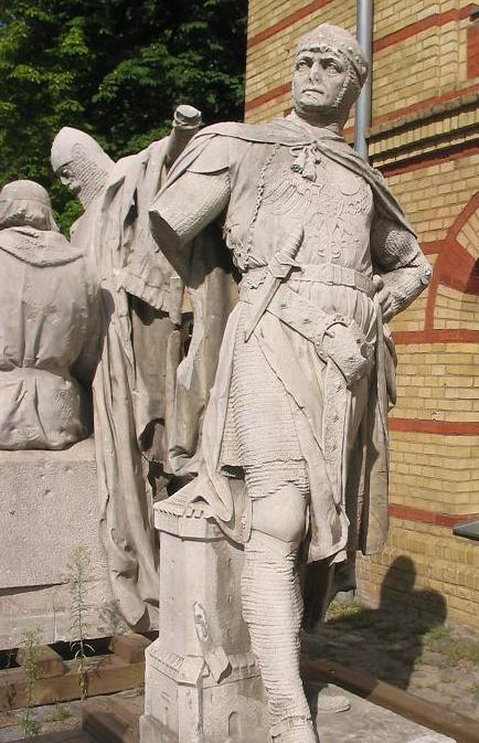 Central statue commemorating the fourth Margrave of Brandenburg Albert II (c. 1150-1220) from the monument group № 4 in the former Siegesallee in Berlin. Sculptor: Johannes Boese, unveiled on 22 March 1898. Here in the Spandau Citadel in August 2009, before its conservation-restoration.